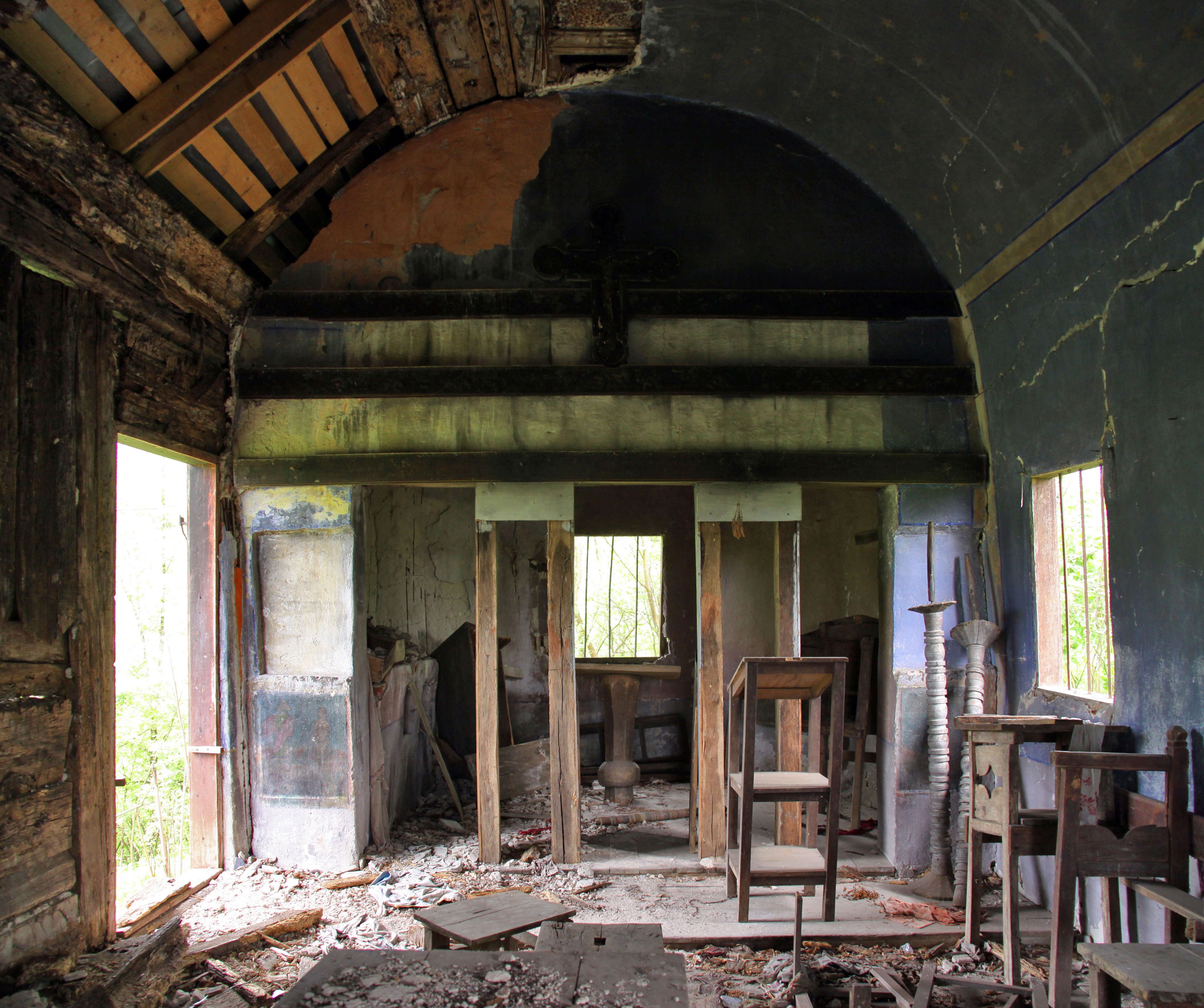 Slămneşti, Gorj county, Romania: the wooden church, nave.